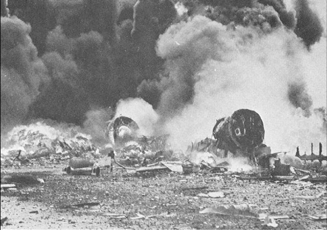 USAAF aircraft burning following the Japanese attack on Isley Field, 27 November 1944